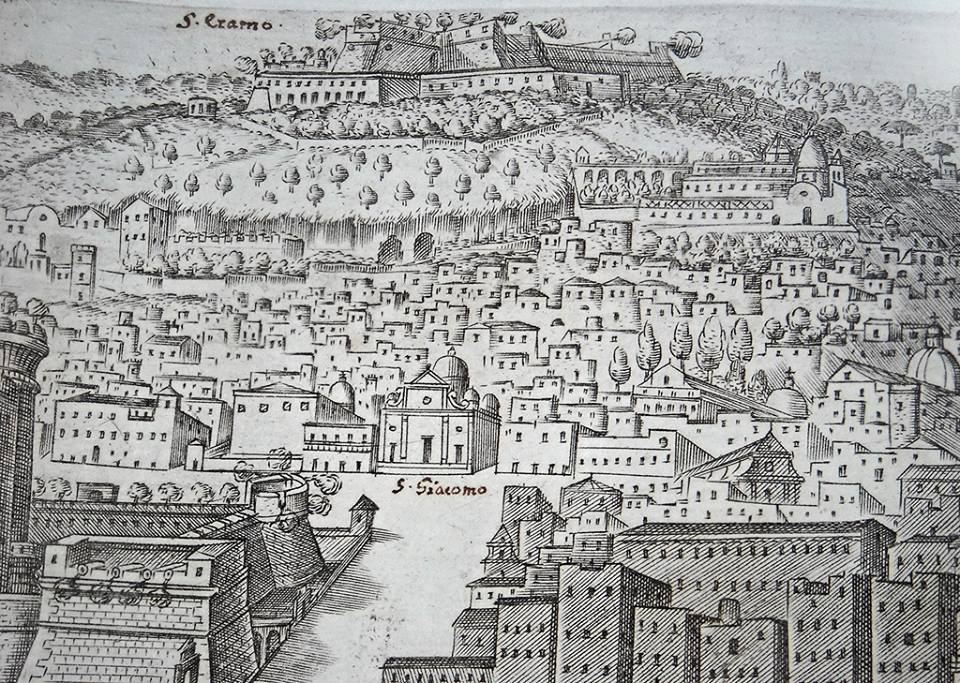 Alessandro Baratta and Nicolas Perrey (Naples 1680) - Largo di Castello (Piazza Municipio), Castel Nuovo, San Giacomo degli Spagnoli Church, Sant'Elmo Castle and Carthusian Monastery of San Martino - Detail of "La fedelissima Città di Napoli" (1680).